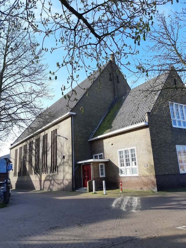 Church built in 1930